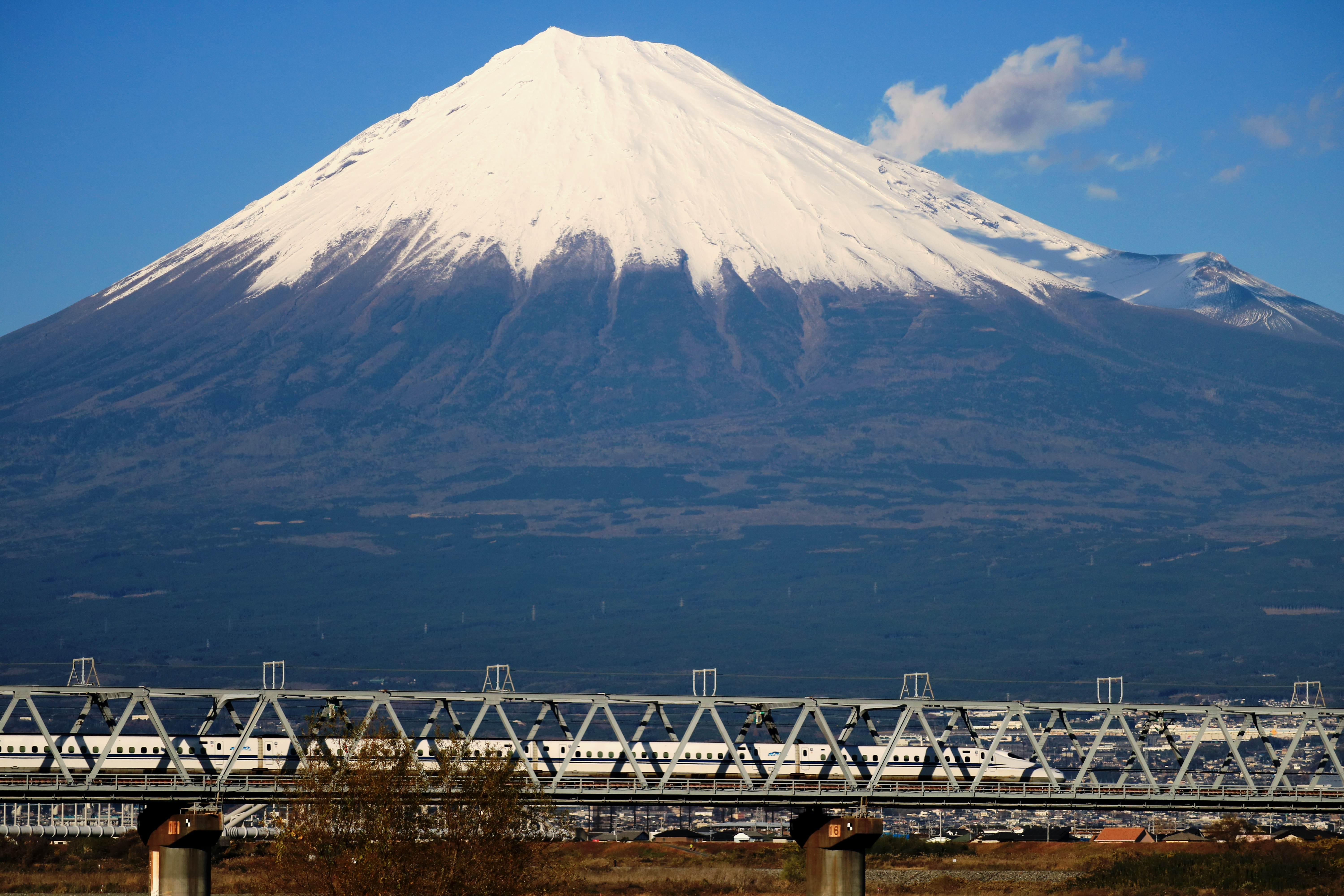 An N700 series shinkansen train crossing the Fujikawa Bridge on the Tōkaidō Shinkansen over the Fuji River in Shizuoka Prefecture, Japan, with Mount Fuji in the background